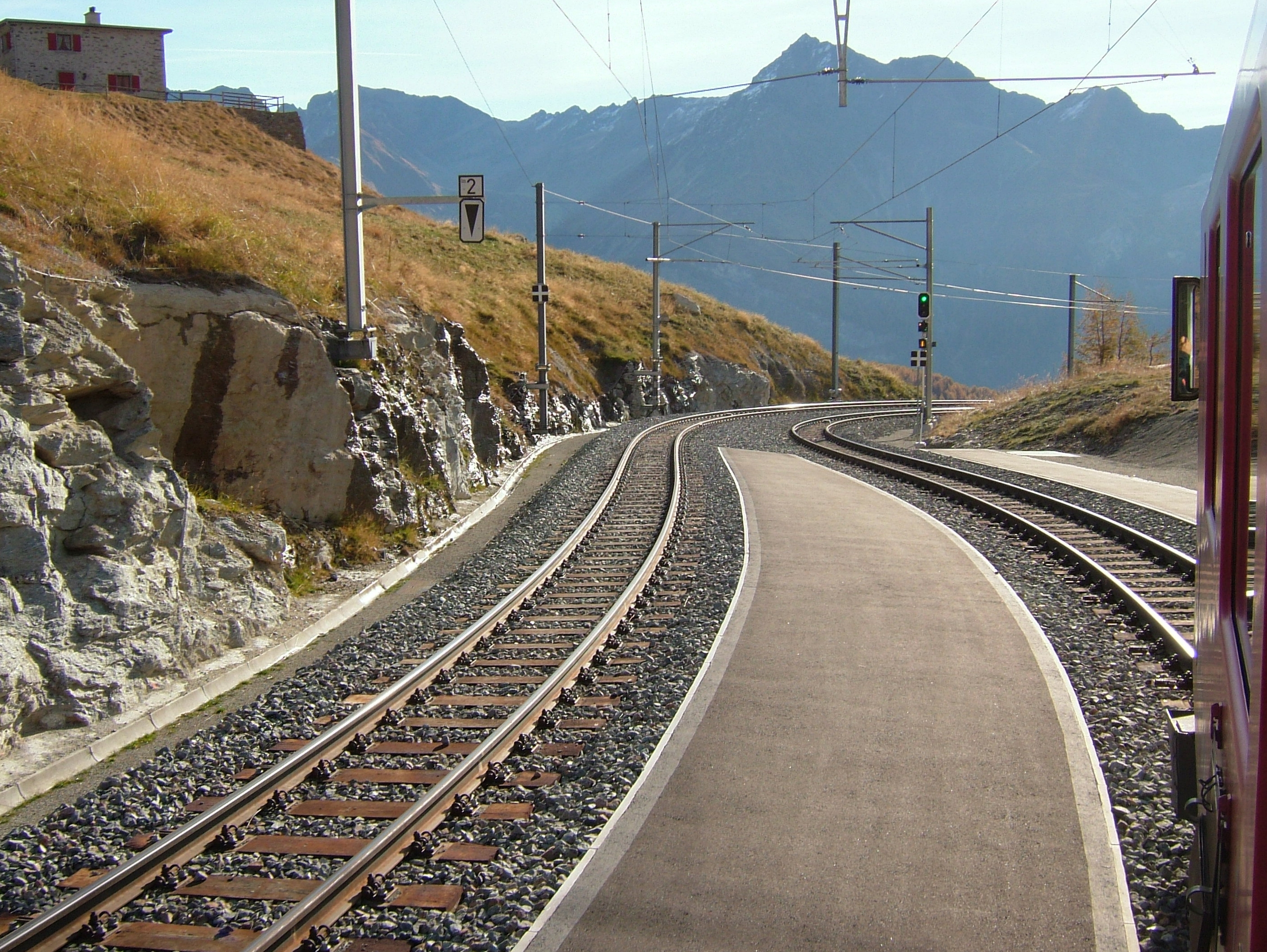 Bernina railwayAlp Grüm train station, view to the 180° panorama curve ("Heavens curve")The leaving line is not double tracked, it is an advanced switch area (see e.g. File:2011-08-02 12-54-41 Switzerland Alp Grüm.jpg).